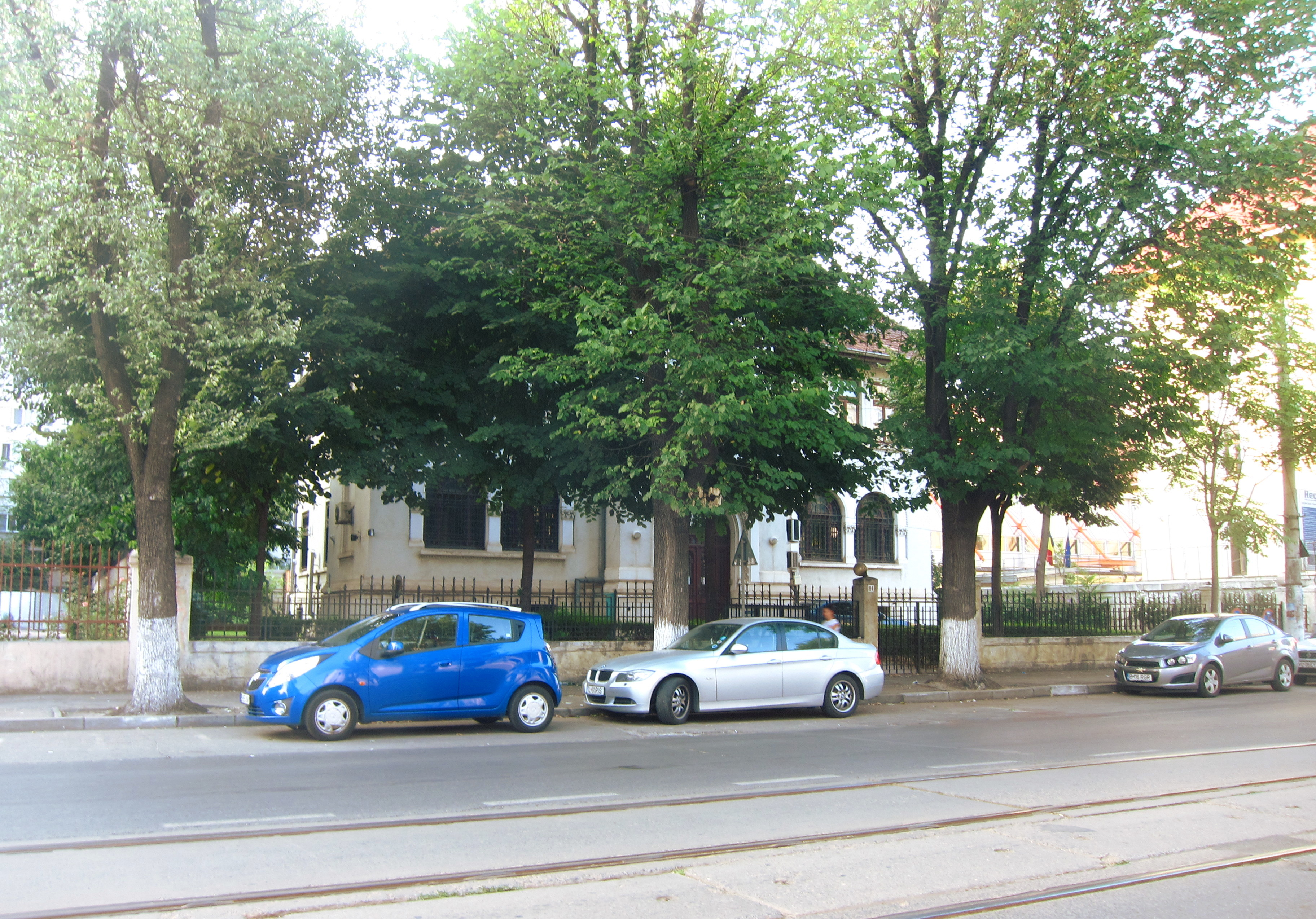 Fiscal Administration offices for the 2nd District, Bucharest, RomaniaRomână: Administrația Fiscală a sectorului 2, București, România